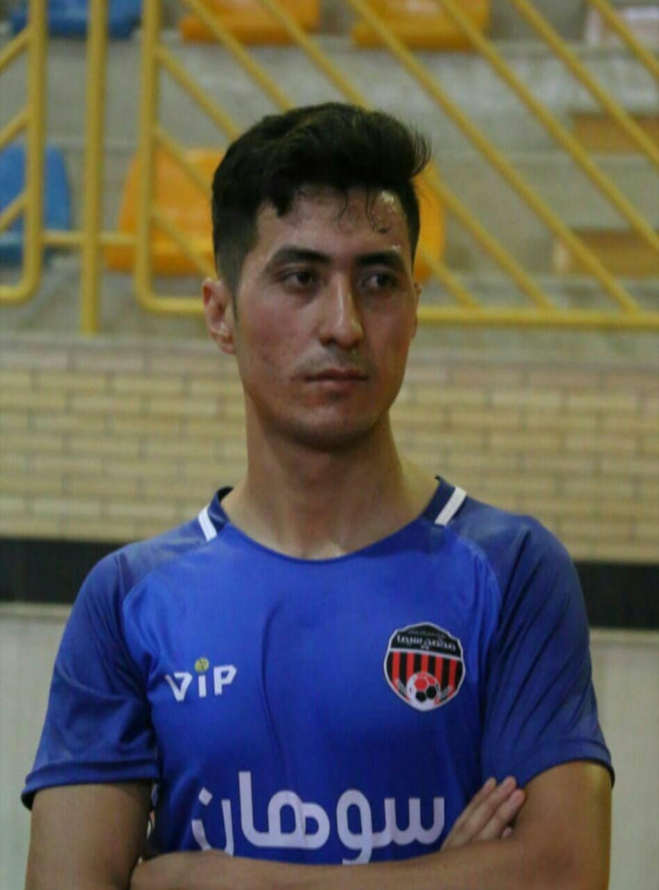 Mohammad Ali Fayazi